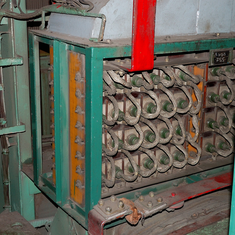 Traction semiconductor diode rectifier VUK-4000T of russian electric freight locomotive VL80S. Diodes VL200, nominal current 200 A